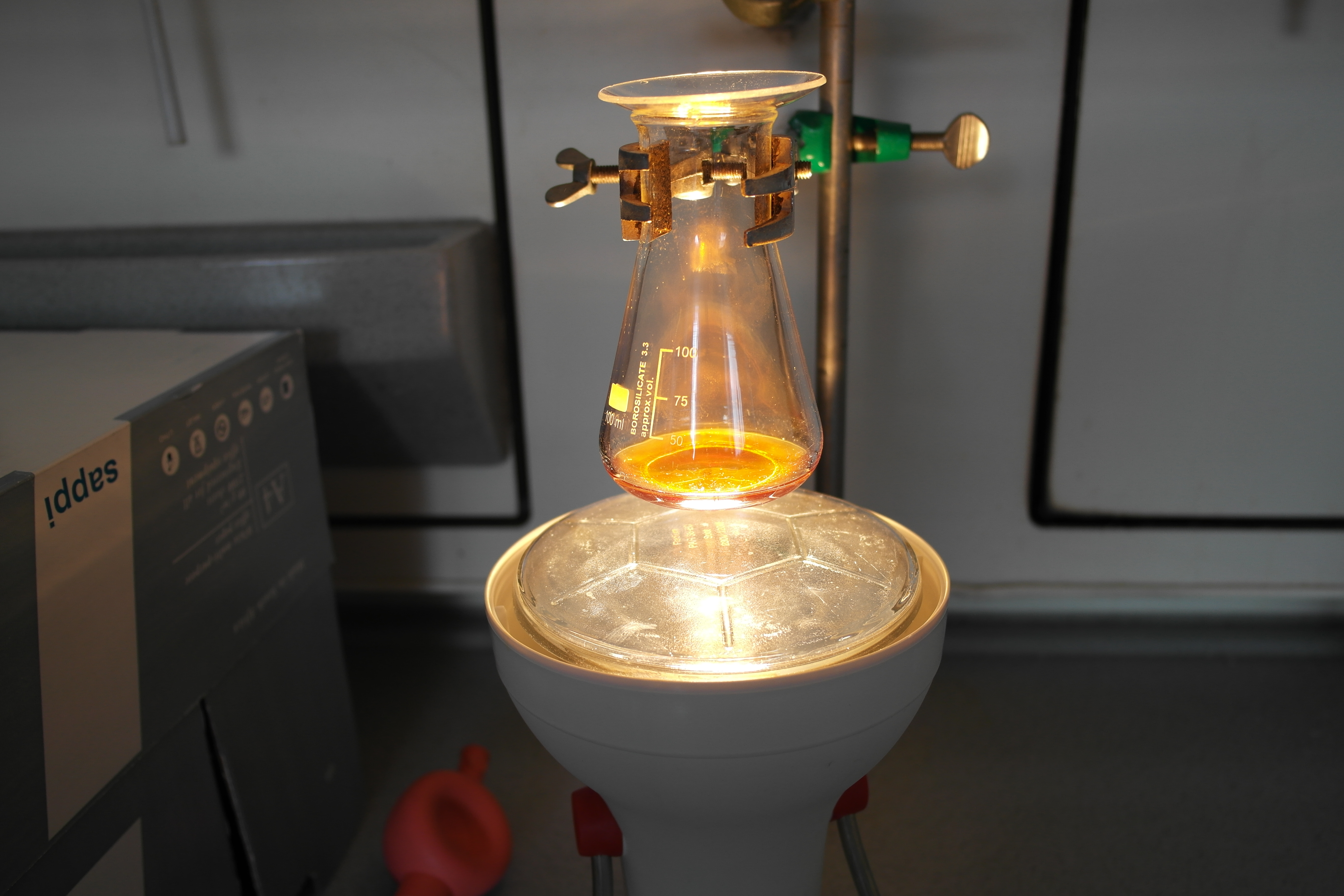 Bromination of cyclohexane, using light to increase the reaction velocity.